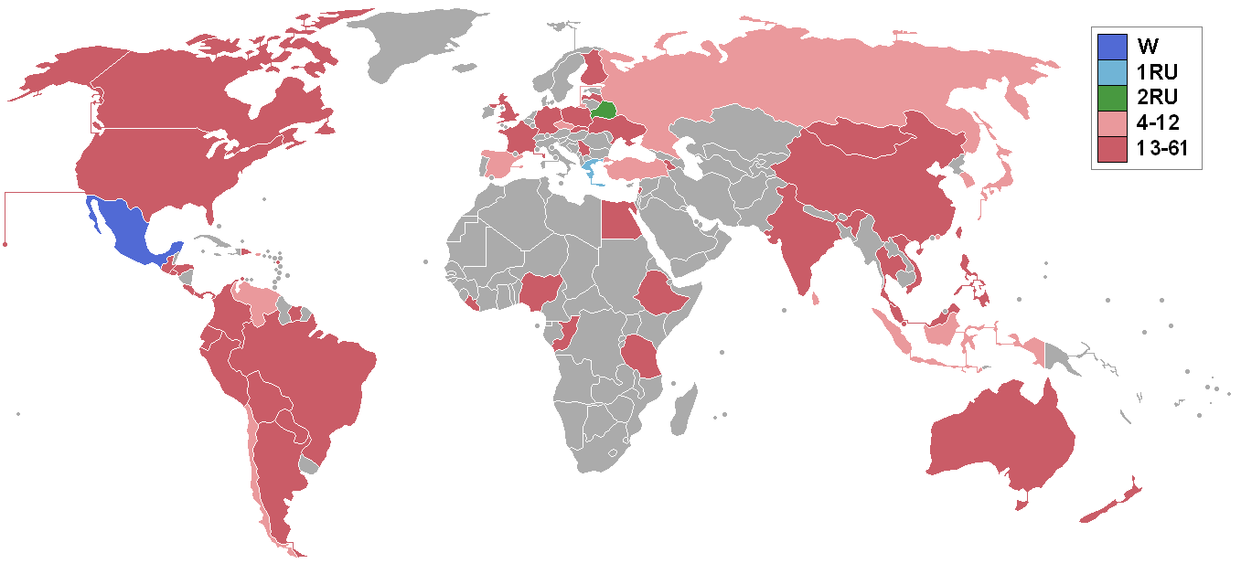 Miss International 2007 Map